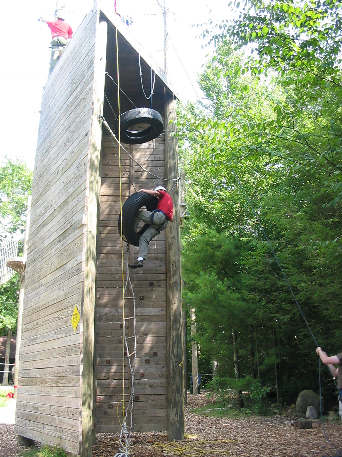 Rope course, Camp Yawgoog Scout Reservation